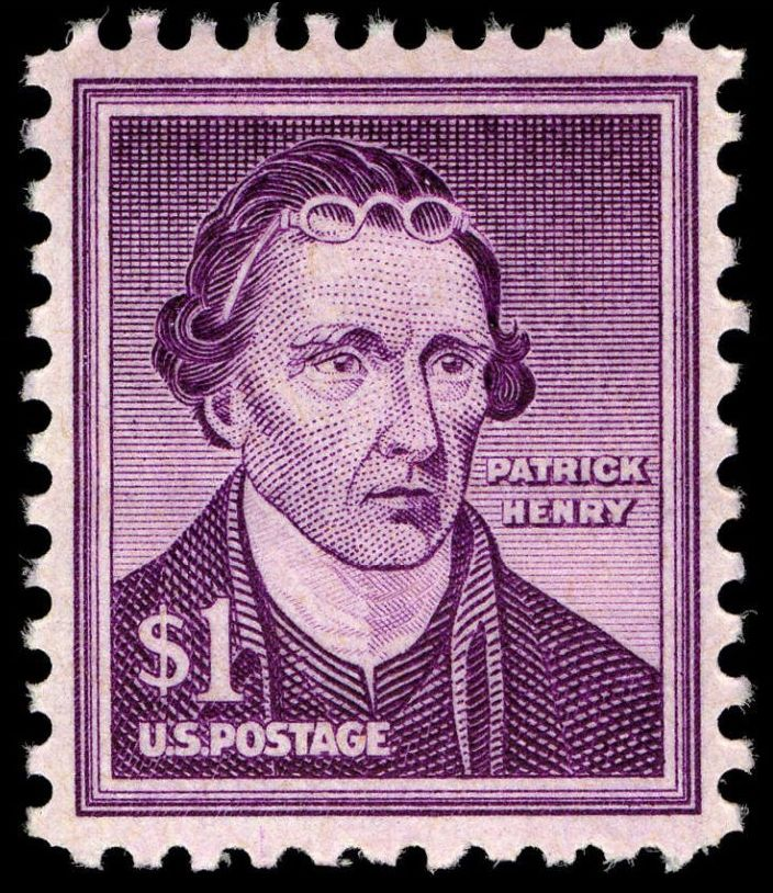 US Postage stamp, Patrick Henry, 1955 issue, $1, violet